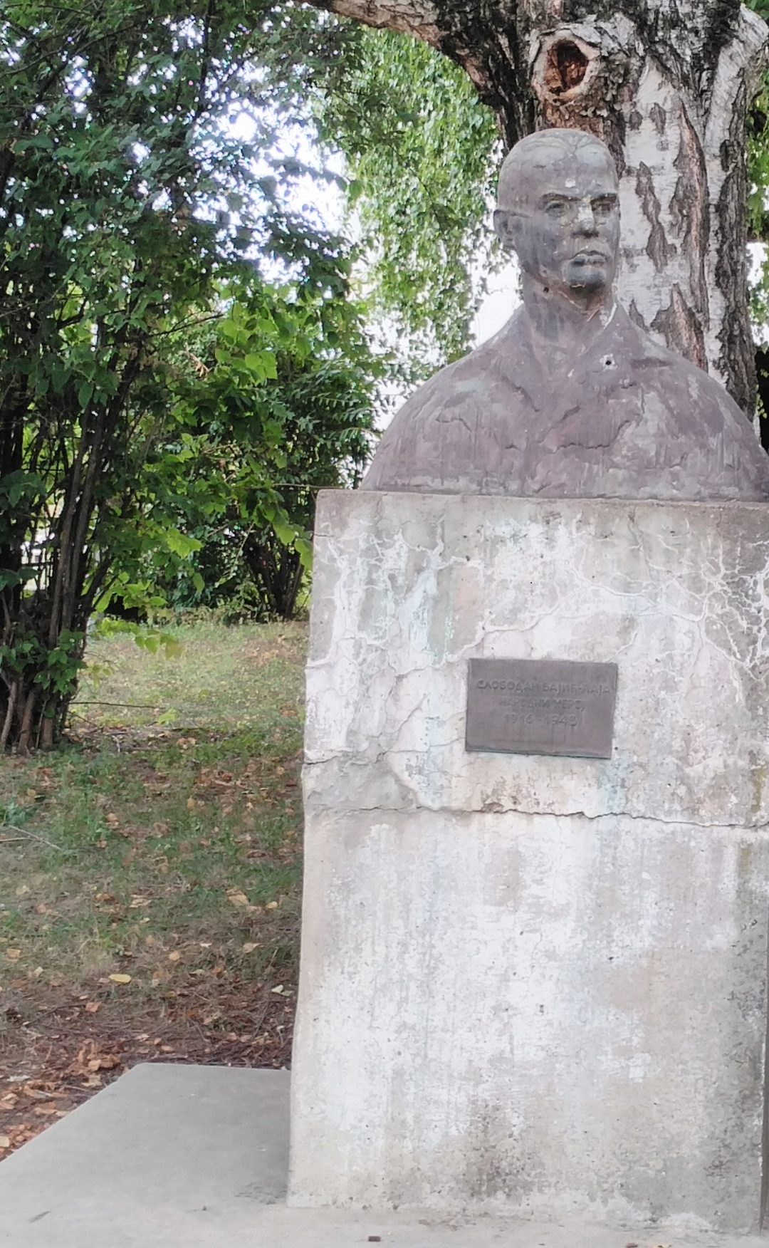 Slobodan Bajić Paja bust in front of Banovci School